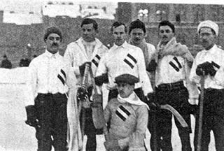 Austrian hockey team in 1912. Austria was represented by DEHG Prag players.